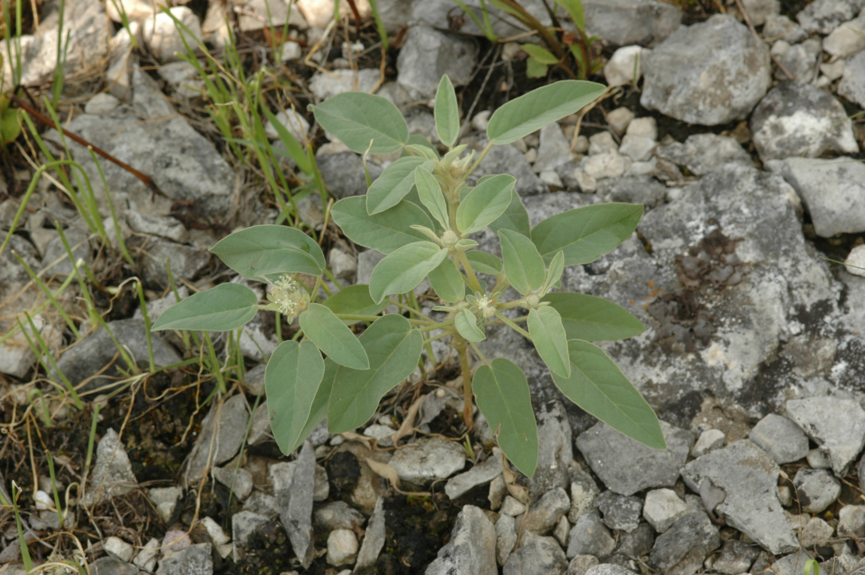 my pic